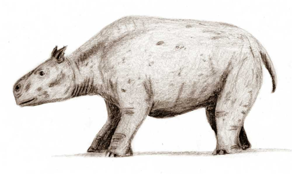 Toxodon. Author:User:ArthurWeasley.